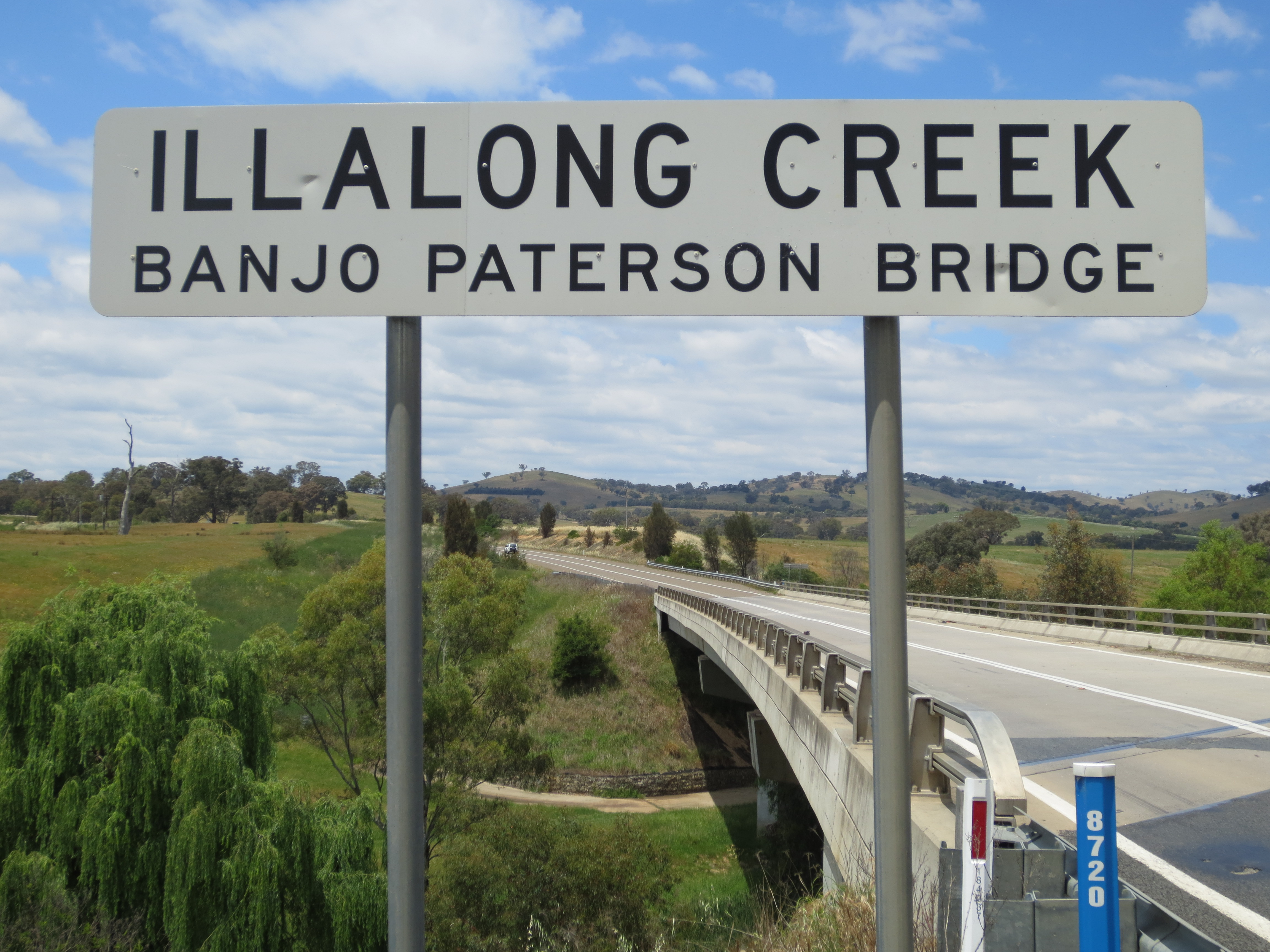 Bridge name after Banjo Paterson crossing the Illalong Creek near where Banjo lived. Bridge is a curved concrete bridge on the Walter Griffin Way